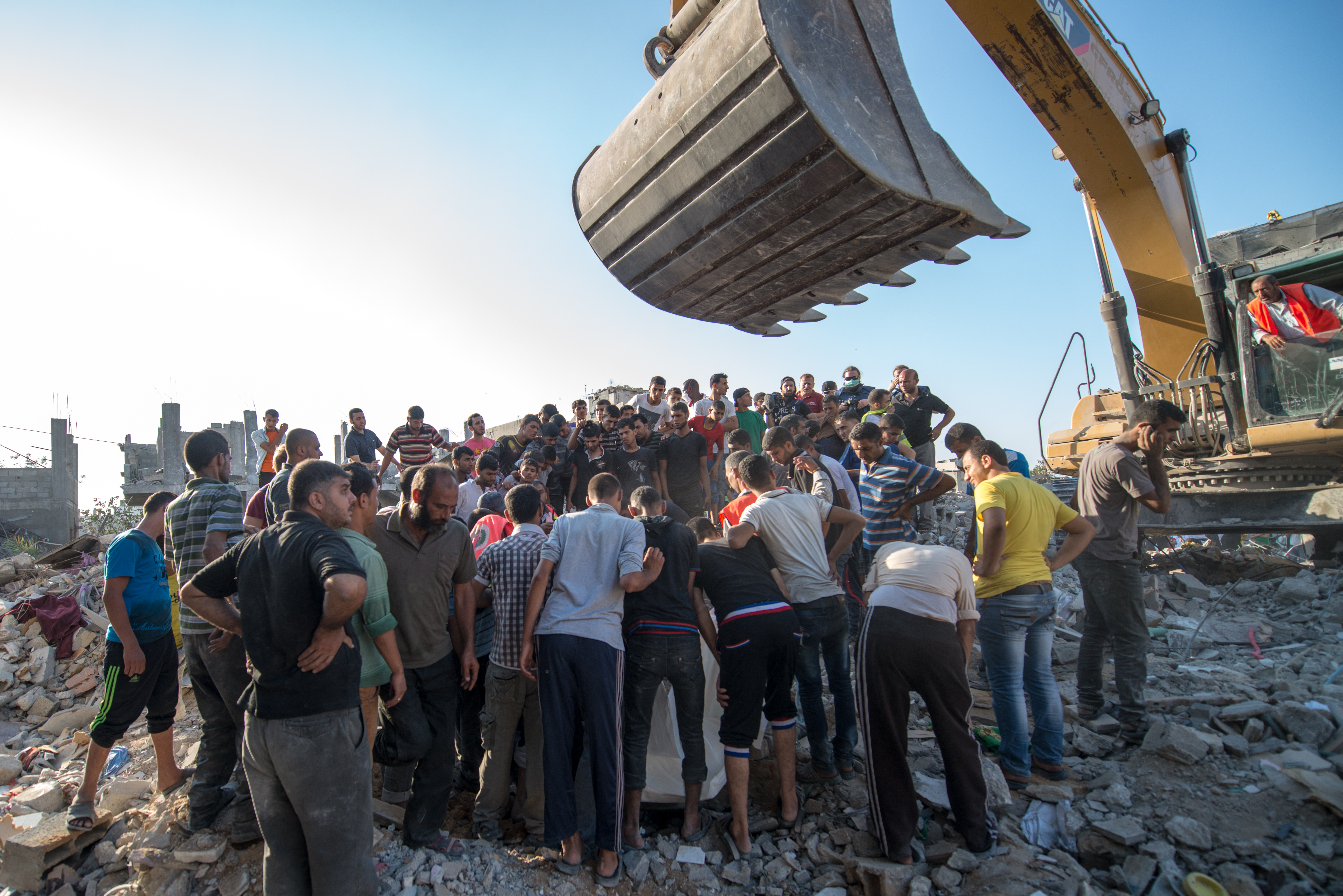 In Beit Hanoun in Gaza, People are using the 72-hours ceasefire, to return back to their homes and to retrieve the dead.